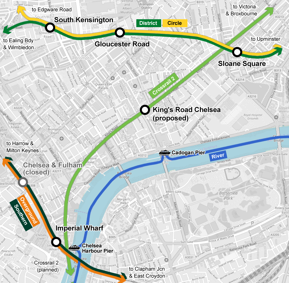 Rail and Tube map of Chelsea, London, including the proposed Crossrail 2 This map may be incomplete, and may contain errors. Don't rely solely on it for navigation.